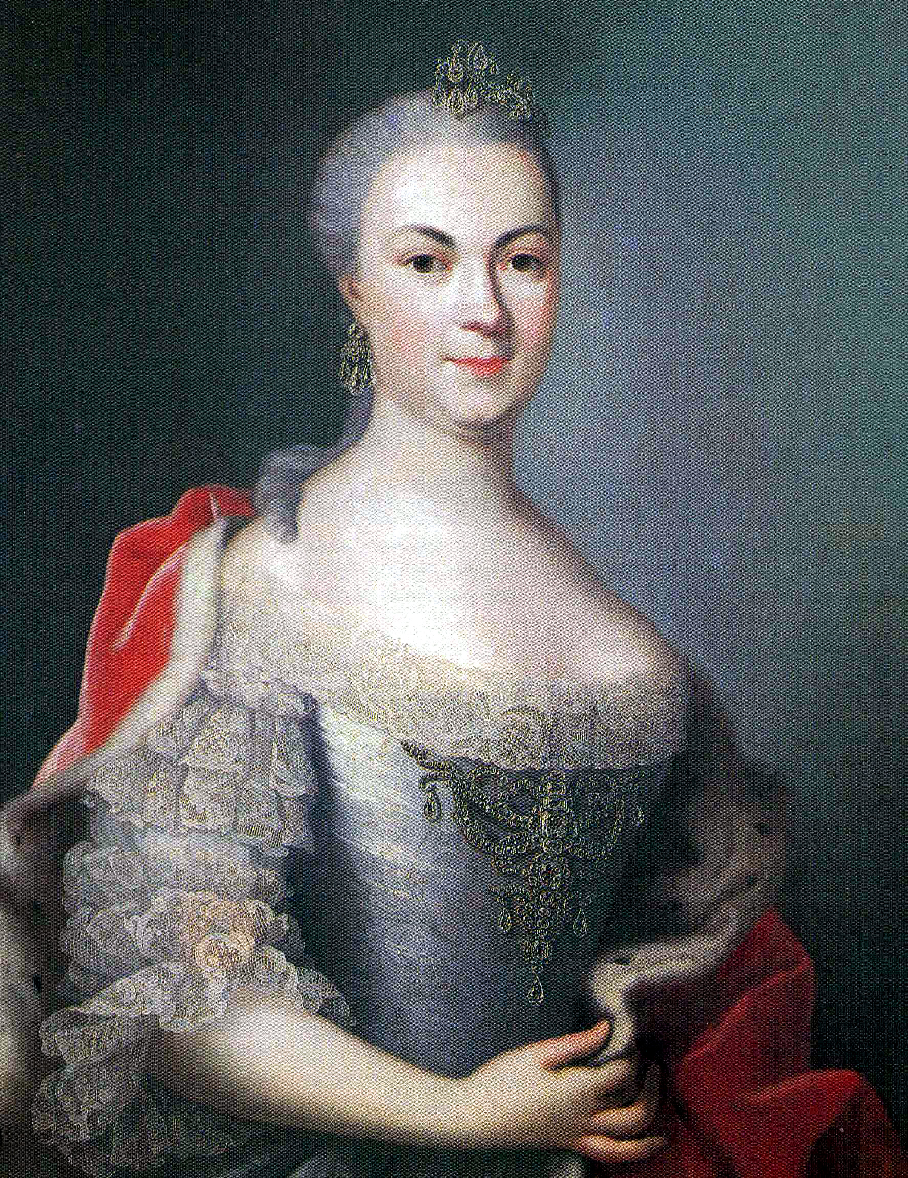 Portrait of Countess Maria Louise Albertine of Leiningen-Falkenburg-Dagsburg (1729-1818), wife of Prince George William of Hesse-Darmstadt